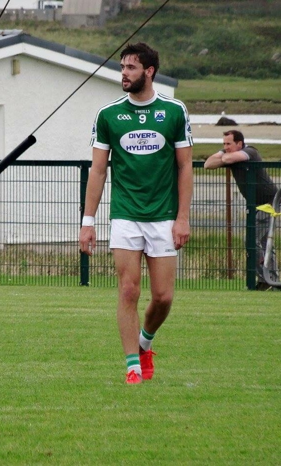 Odhran Mac Niallais, 2017